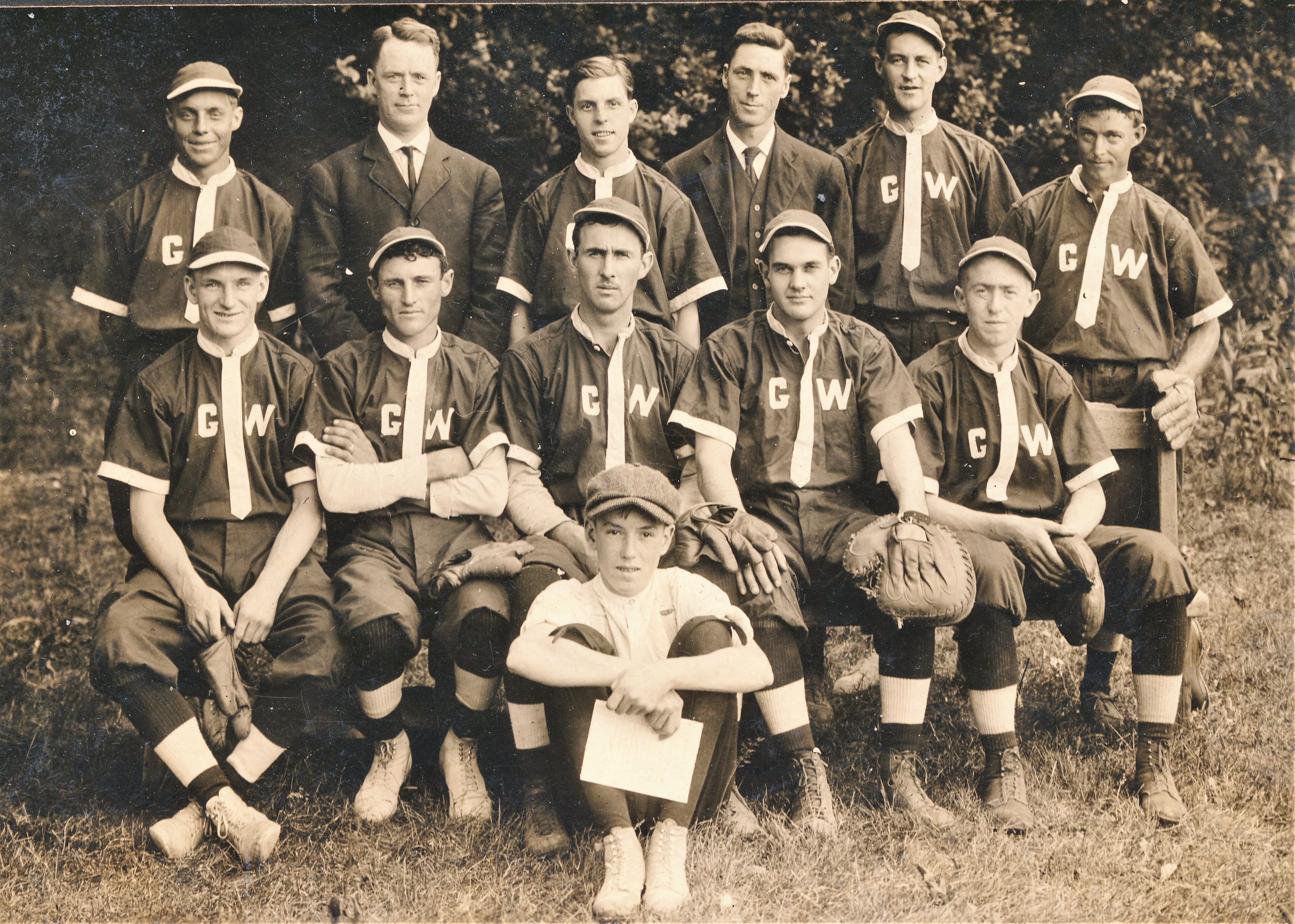 Glen Williams, Ontario baseball team, 1912 - 1913, Rear: Fred Norton, Lyndley Beaumont, James Norton, George Beaumont (brother of Lindley Beaumont), Robert Hynes, Tom Hickey Front: Raymond Graham, Bill Schenk, Tom McEwain, Brock McIIwain, Robert McMenemy Boy: Percy Graham Submitted by Gord Preston